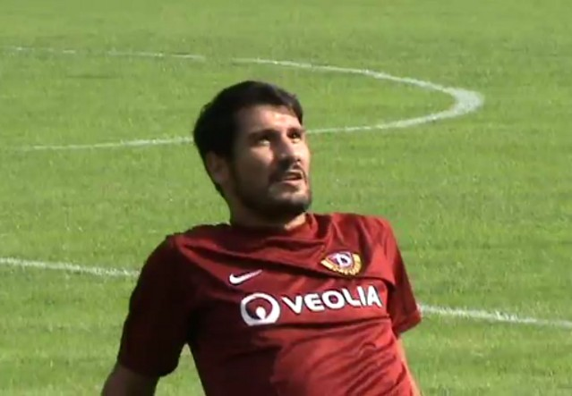 Dynamo Dresden, first public training in the 2011/12 season — The photo shows: Cristian Fiél.